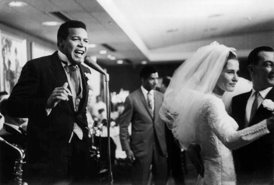 Photo of Chubby Checker singing at his wedding reception while his new bride, Catharina Lodders, dances with a guest.